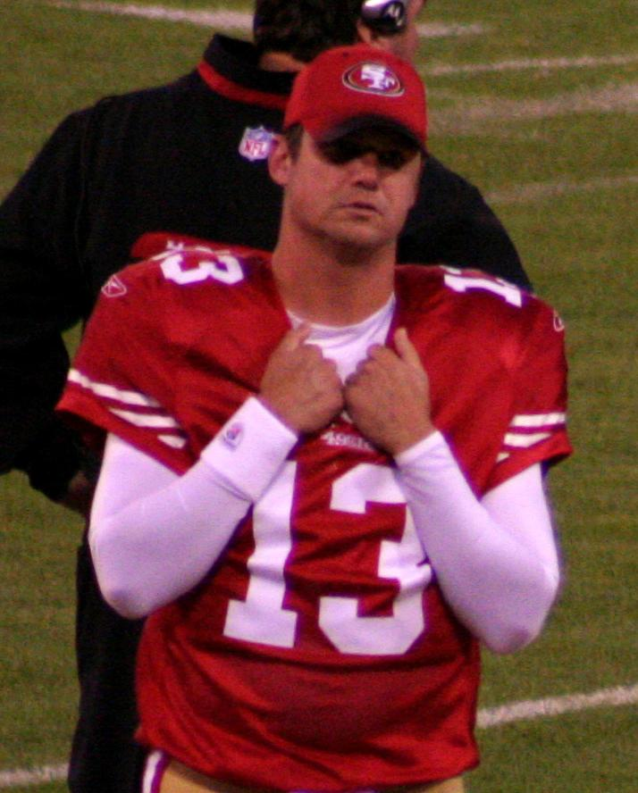 San Francisco 49ers quarterback Shaun Hill on the sidelines during the game against the Chicago Bears on November 12, 2009.